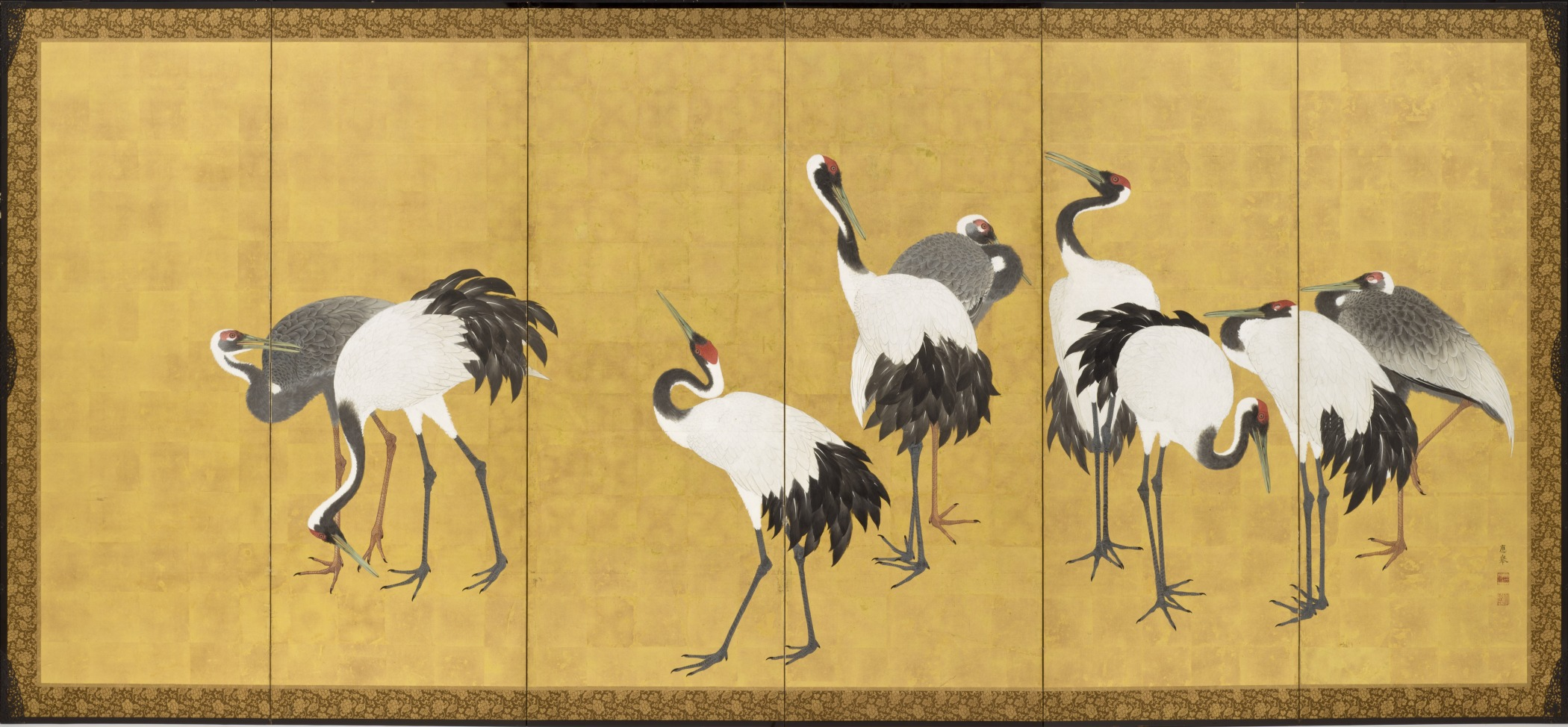 Japan, 1772, An'ei period (1772-1780) Paintings; screens Pair of six-panel screens; ink, color, and gold leaf on paper a-b) Mount: 67 1/4 x 137 3/4 x 3/4 in. (170.82 x 349.89 x 1.91 cm) each Gift of Camilla Chandler Frost in honor of Robert T. Singer (M.2011.106a-b) Japanese Art Currently on public view: Pavilion for Japanese Art, floor 3